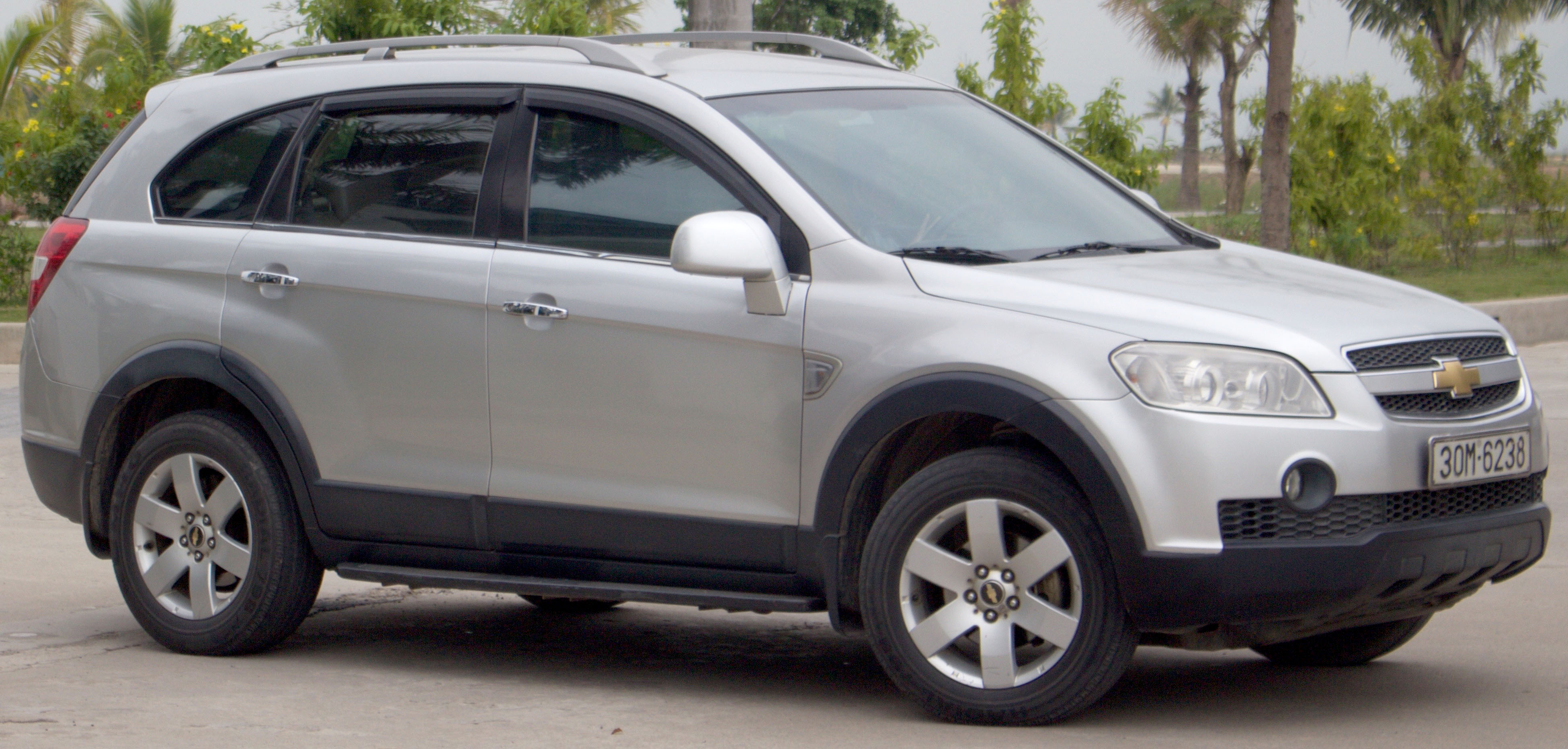 2006-2011 Chevrolet Captiva LS wagon. Photographed in Halong Bay, Vietnam.